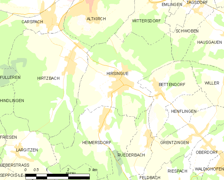 Map of French municipality